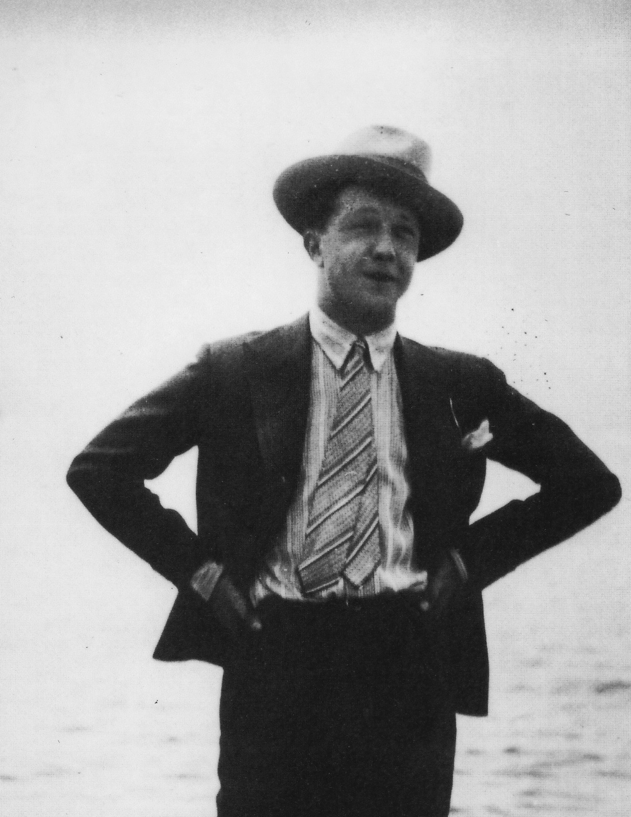 Pierino Ambrosoli. Swiss industrialist. 1923